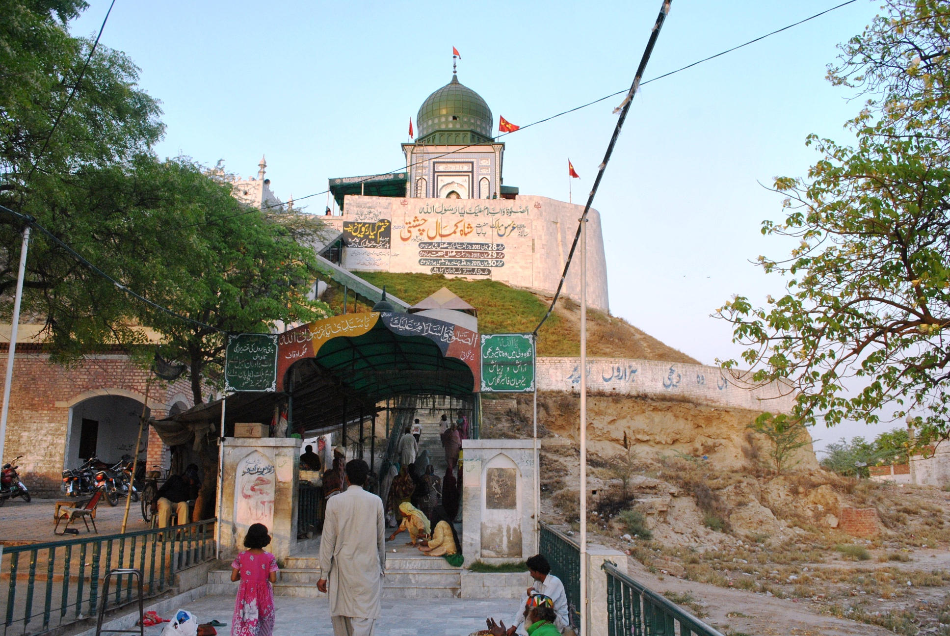 Shrine of Hazrat Shah Kamal This is a photo of a monument in Pakistan identified as the PB-P-117